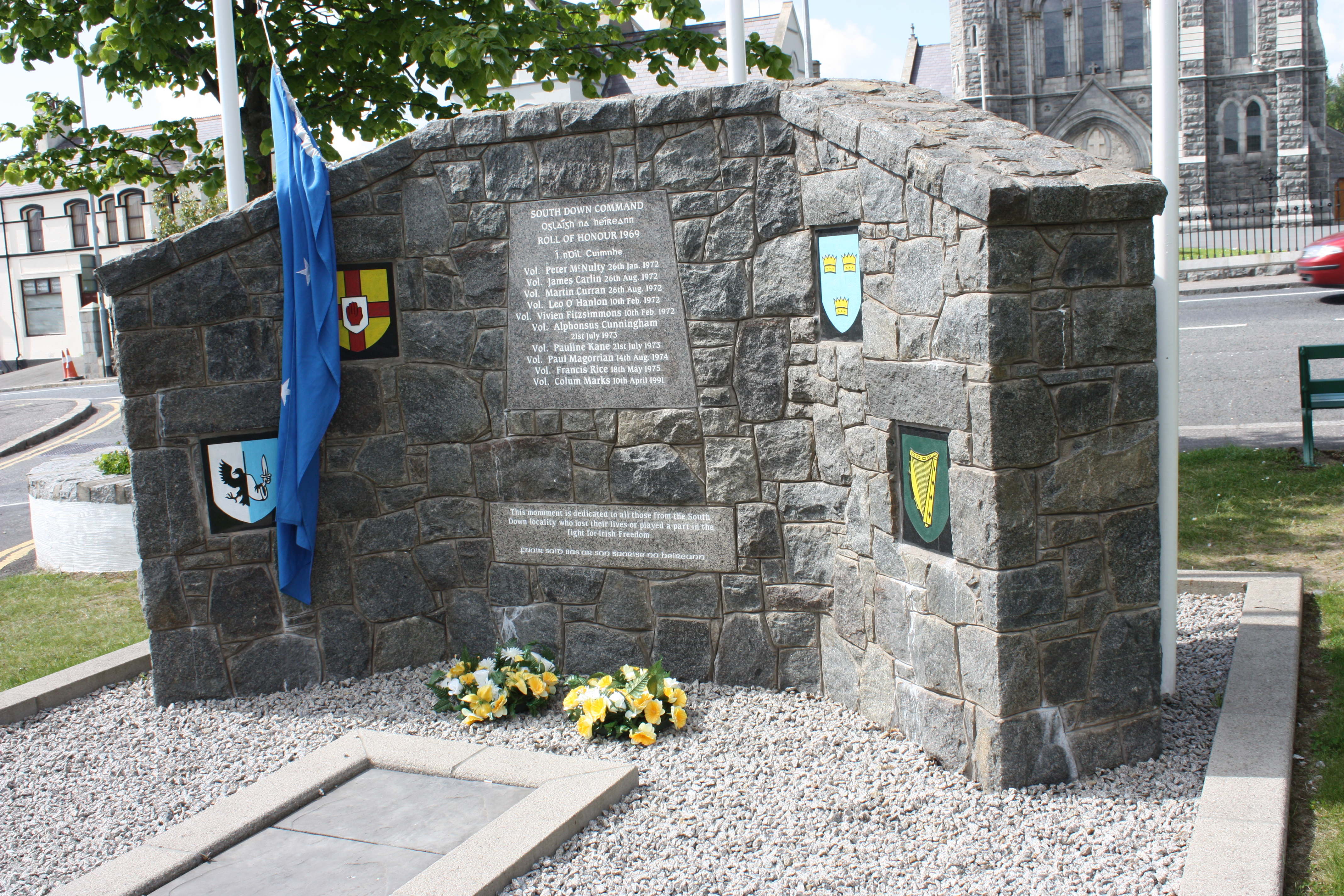 South Down Command (Provisional IRA) Memorial, Lower Square, Castlewellan, County Down, Northern Ireland, May 2010